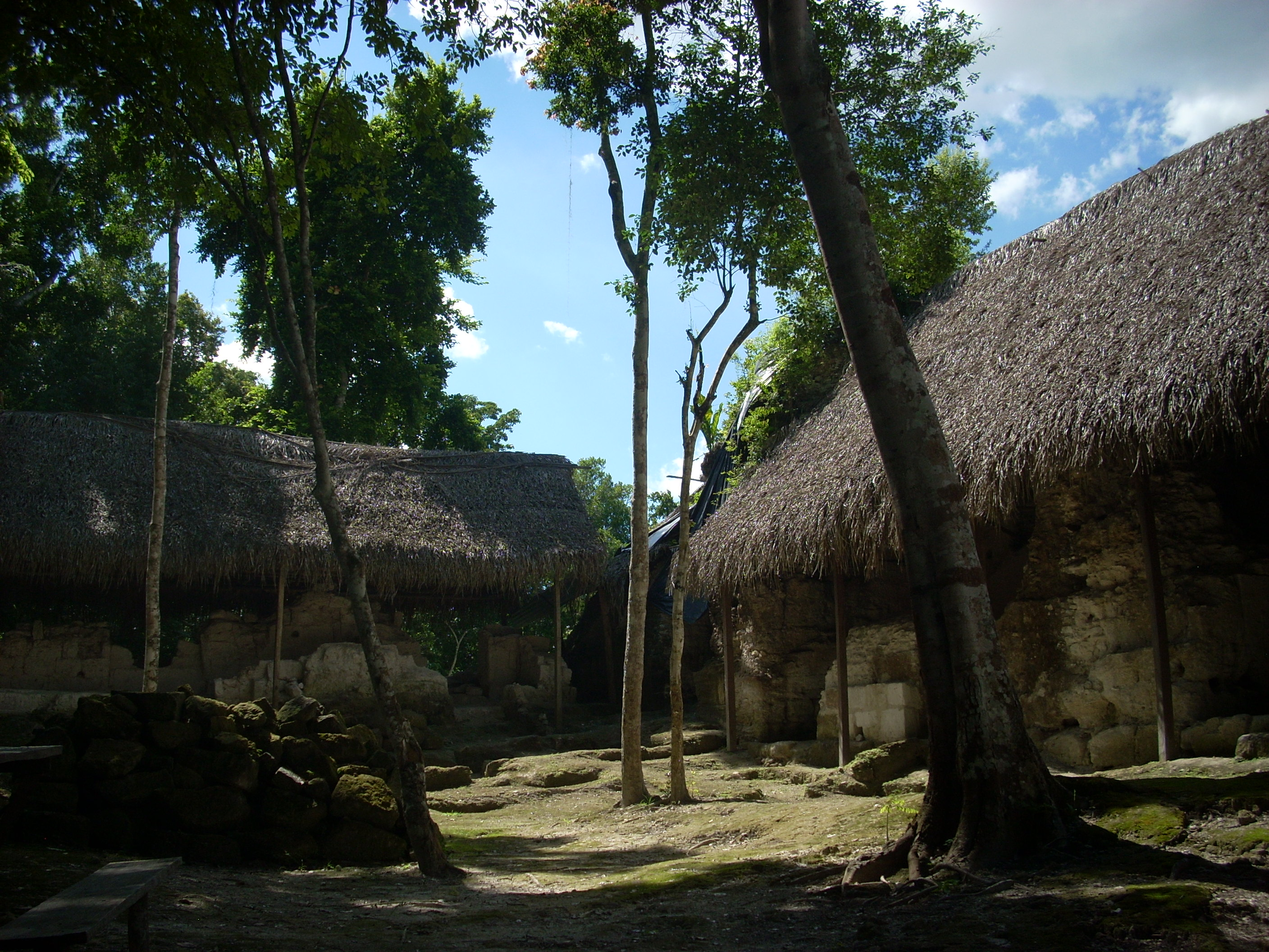 The acropolis at La Blanca Maya ruins, Peten, Guatemala. South side of south range.